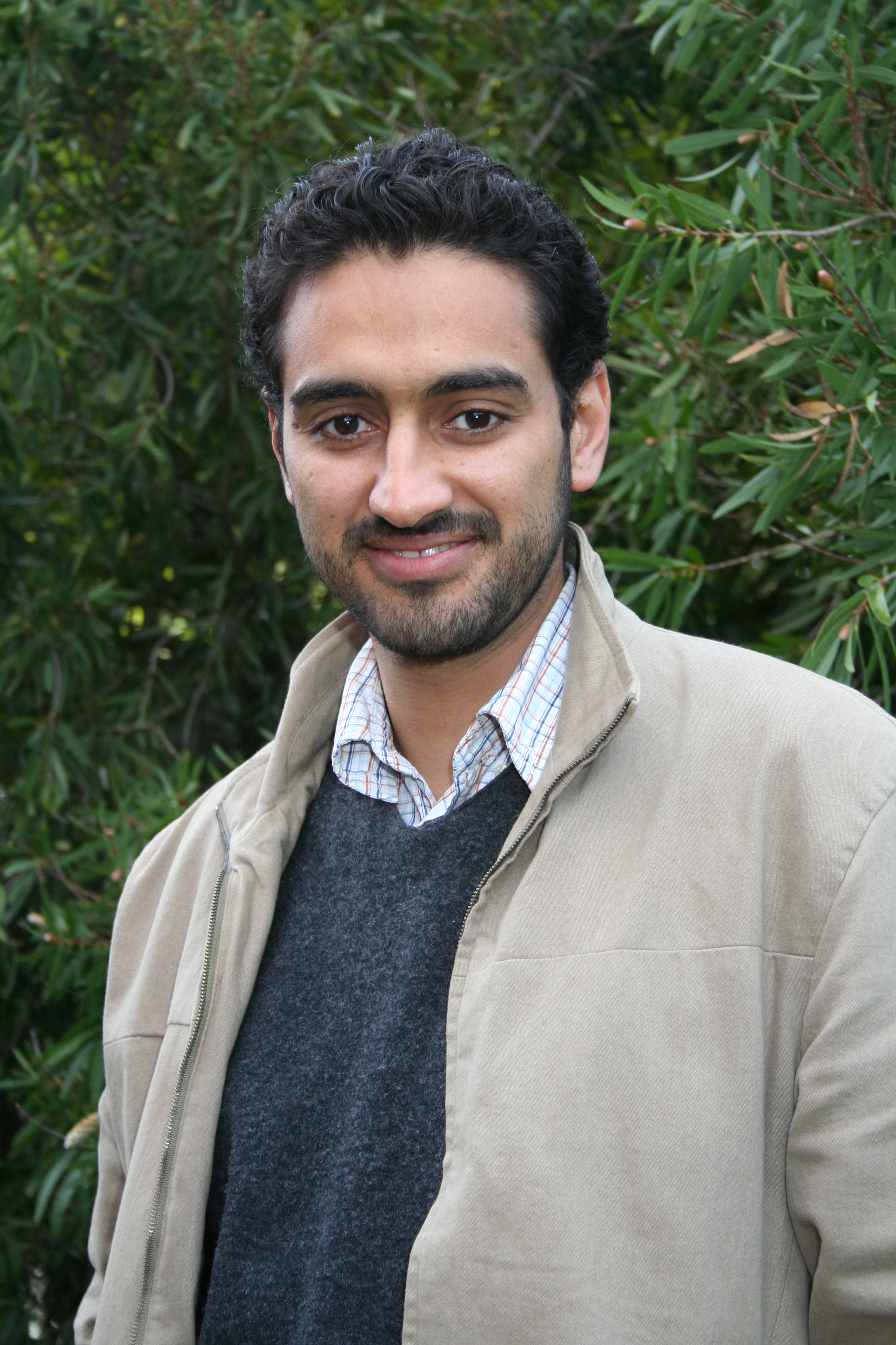 Headshot of Waleed Aly used in most promotional material.